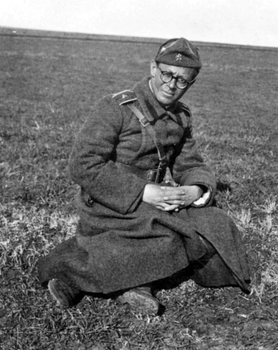 Aleksander Begajev conscripted in Macedonia 1918